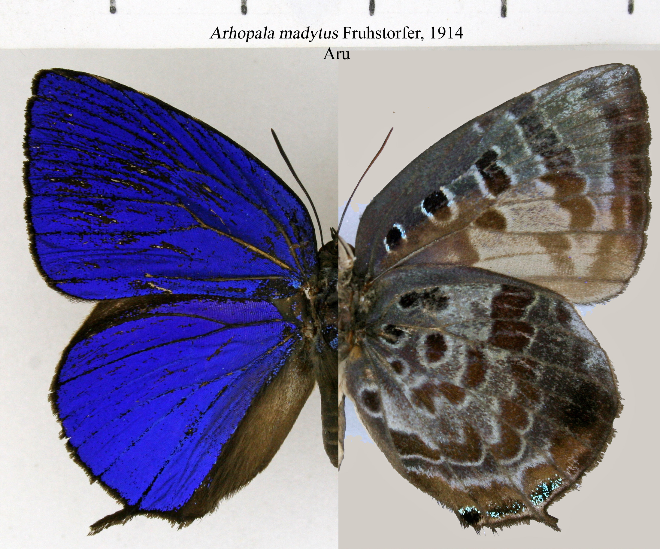 Arhopala madytus, male, Aru, Alan Cassidy photo.